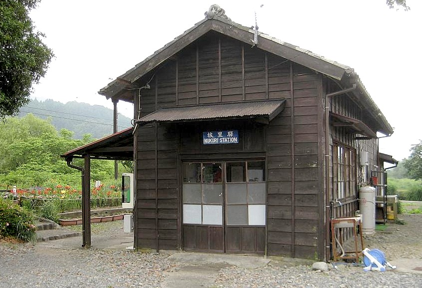 Nukuri Station on the Oigawa Railroad